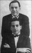 Francisco Canaro y Rafael Canaro. directores de orquestas argentinos